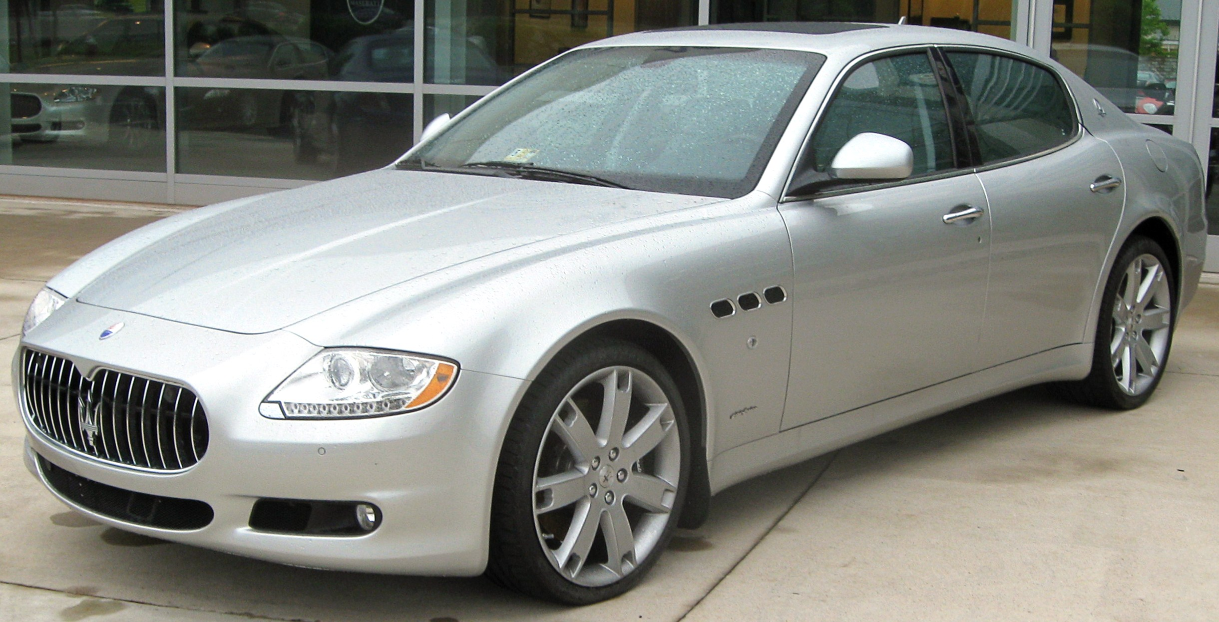 Maserati Quattroporte photographed in Sterling, Virginia, USA.